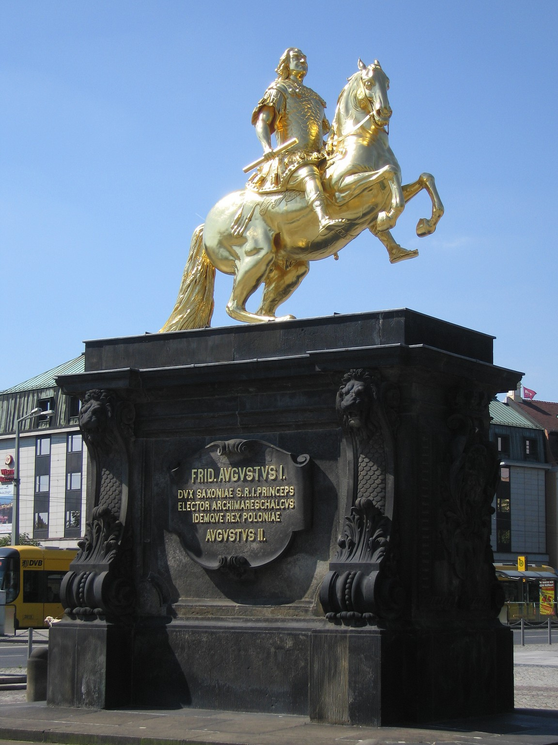 equestrian statue Goldener Reiter in Dresden, Germany.